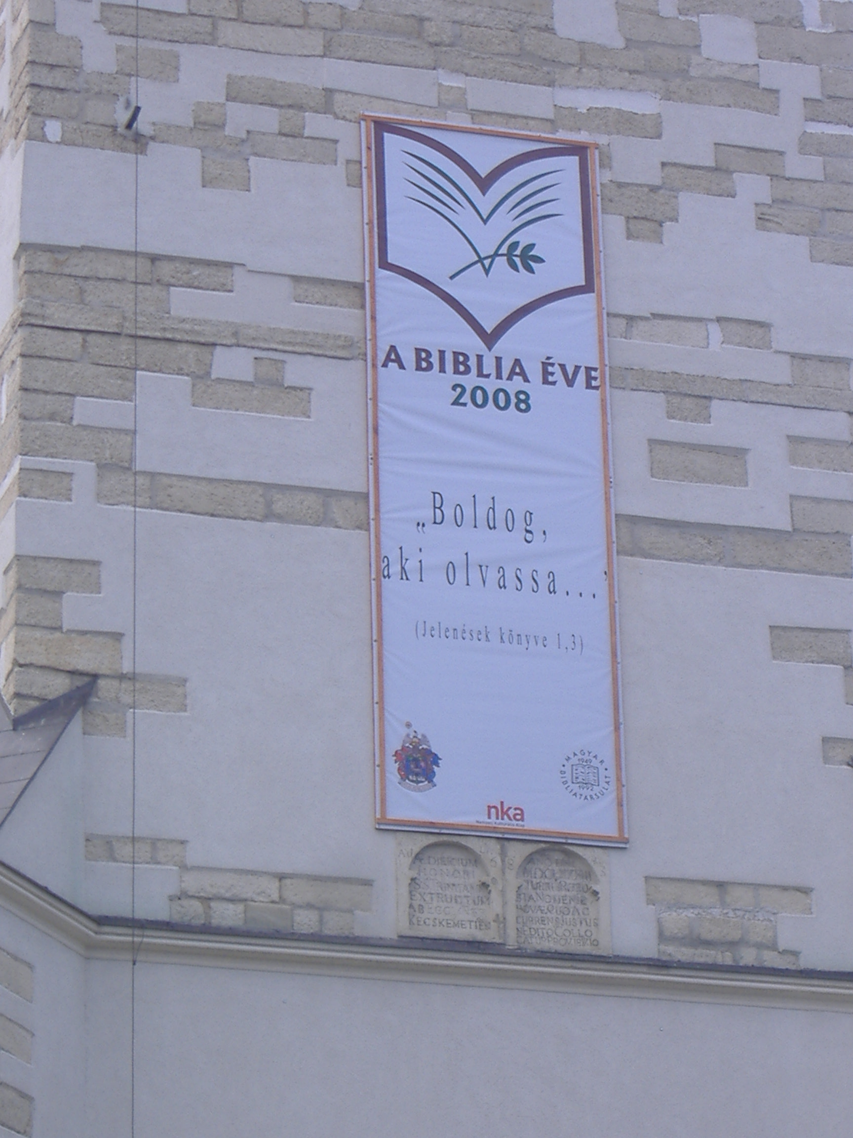 Wall of a church in Kecskemét, Hungary, with a poster advertising "2008 - Year of the Bible" movement.